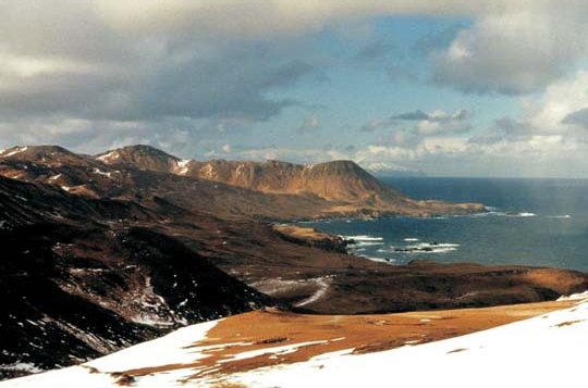 View of Amchitka Island from the East End Looking North.